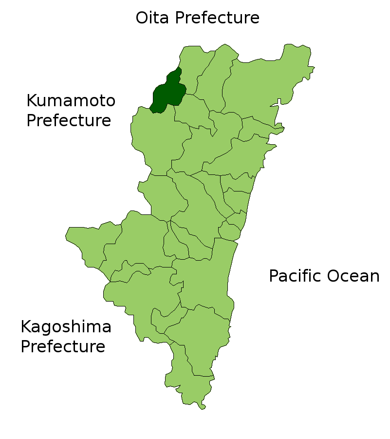 Location Map of Gokase in Miyazaki Prefecture, Japan